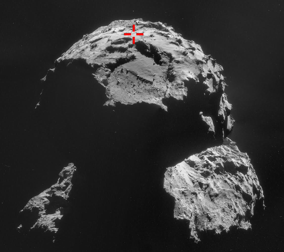 Position of the first touchdown of Philae.[1]